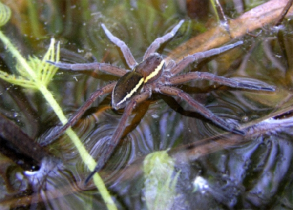 An adult female Great raft spider (Dolomedes plantarius) on the surface of a pool of water at Redgrave and Lopham Fen.